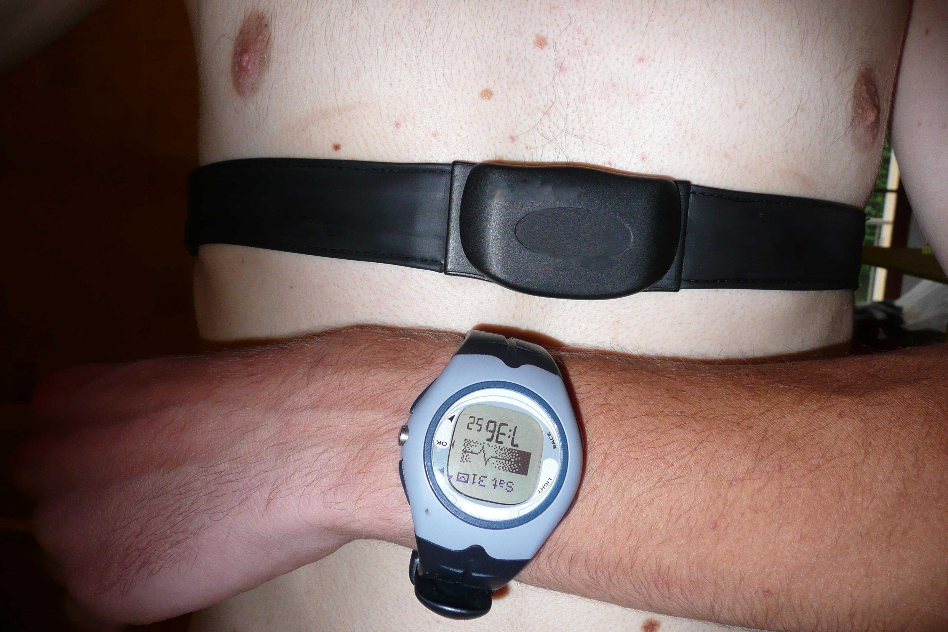 A retouched version of File:Heart rate monitor.jpg to remove the white boxen